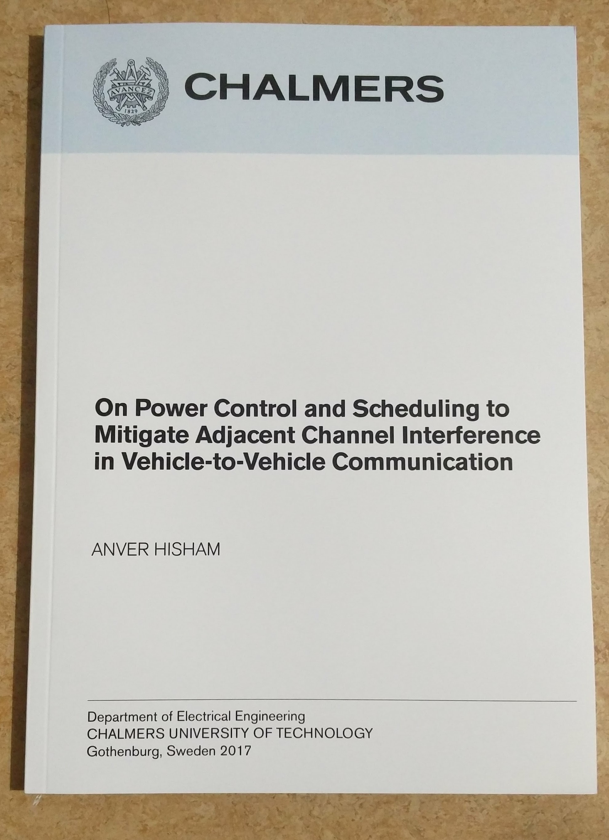 Licentiate thesis of a candidate from Signals and Systems Department at Chalmers Institute of Technology, Sweden